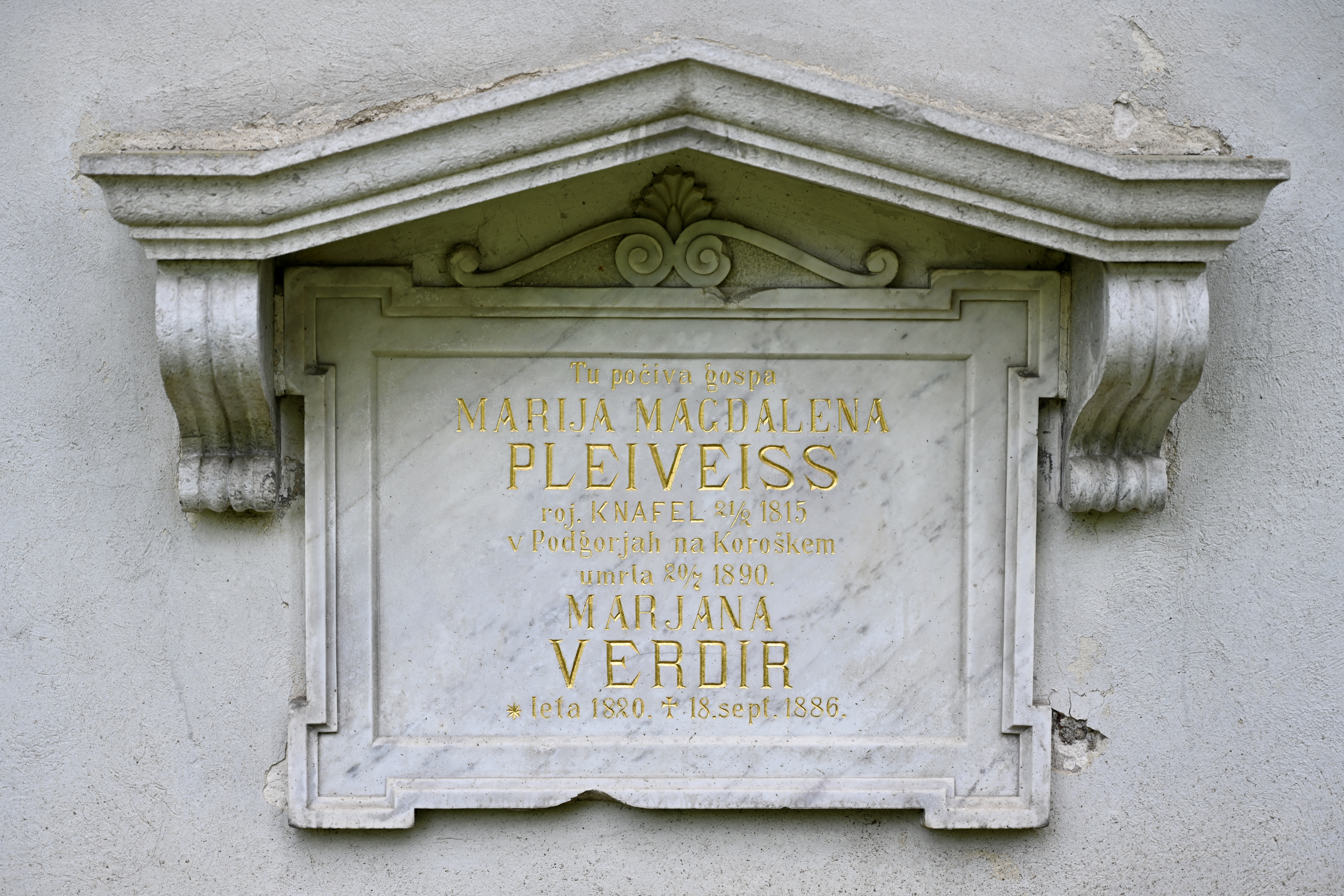 Gravestone of Magdalena Pleiweis at Navje, Ljubljana who was the author of the first cookbook in Slovenian